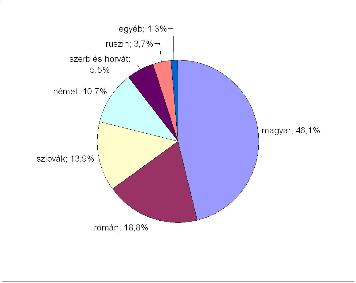 The relative size of nationalites in Hungary (including Transylvania but not including Croatia) at the beginning of the 1840s.